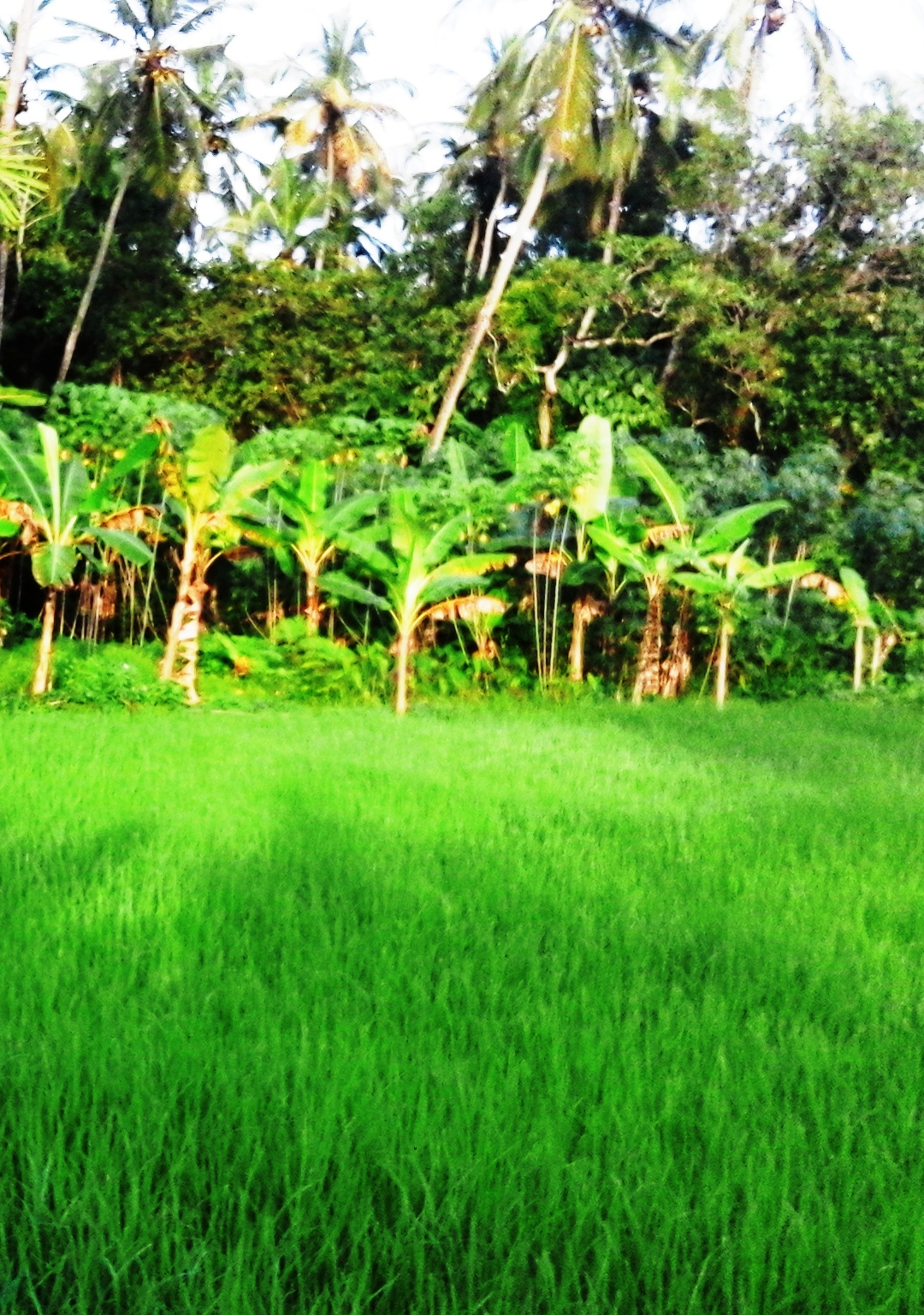 Homeo Road from Ramanattukara takes you to Kuttoolangady village by a traffic-less walking track through paddy fields